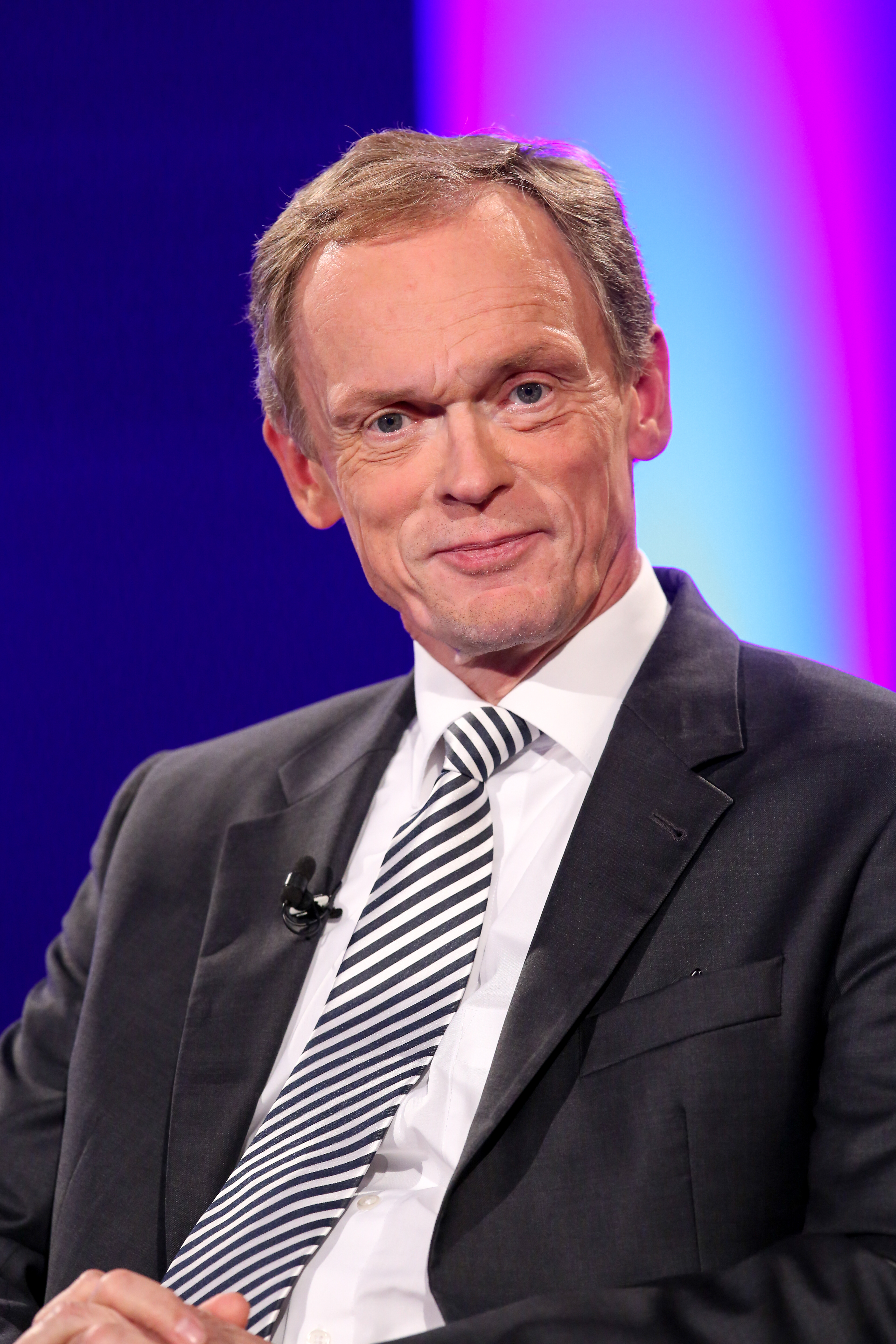 Hendrik Schulte at the 35th Bonn Economic Forum (Bonner Wirtschaftstalk), Kunst- und Ausstellungshalle der Bundesrepublik Deutschland (Federal Art and Exhibition Hall), Bonn